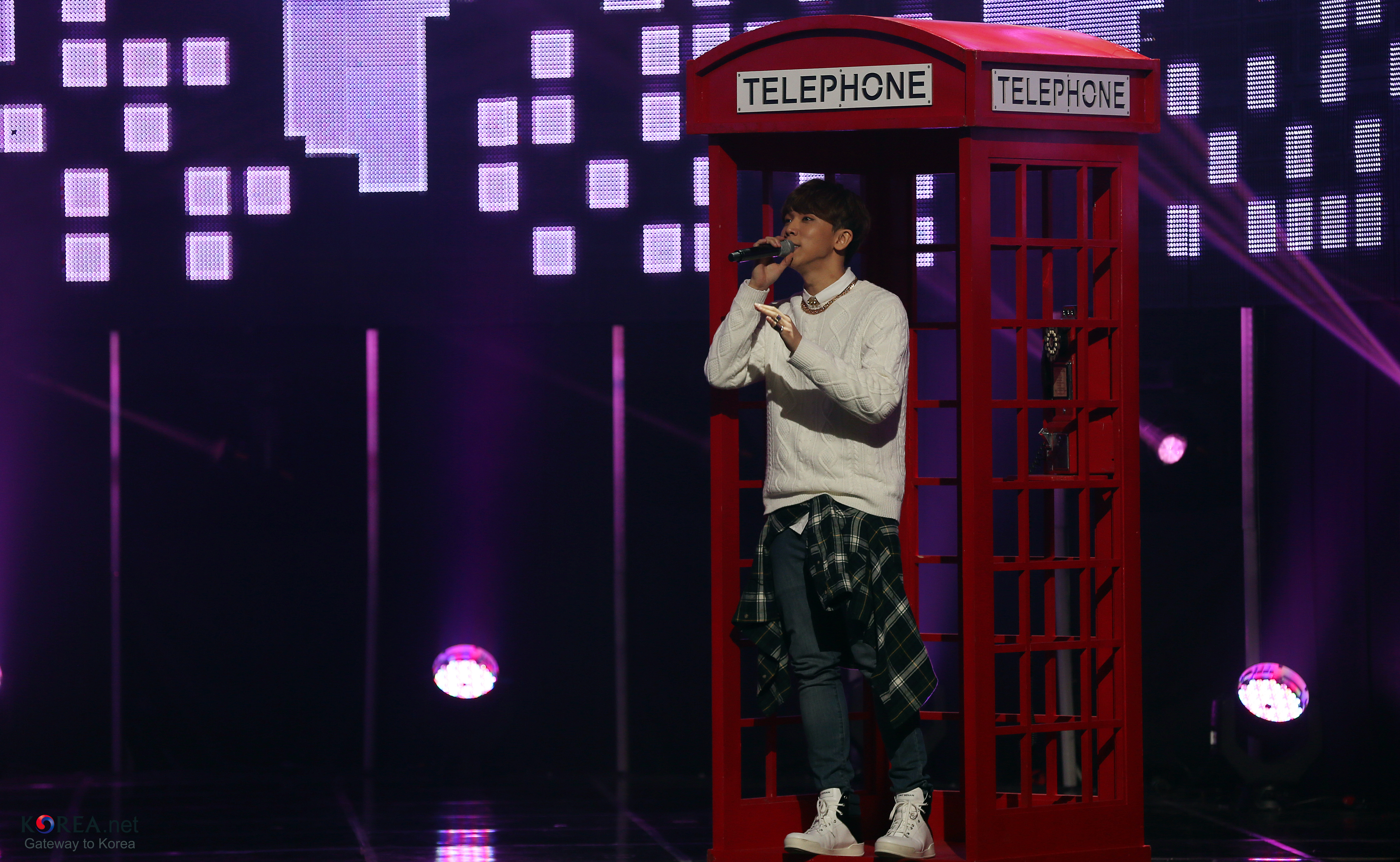 Mcountdown Junggigo x Soyou(Sistar) ‘Some’ CJ E&M Center, Sangam-dong, Mapo-gu, Seoul 2014.03.06. Ministry of Culture, Sports and Tourism Korean Culture and Information Service ( Jeon Han 엠카운트다운 생방송 정기고 x 소유(시스타) ‘썸’ 2014-03-06 CJ E&M 센터 문화체육관광부 해외문화홍보원 코리아넷 전한